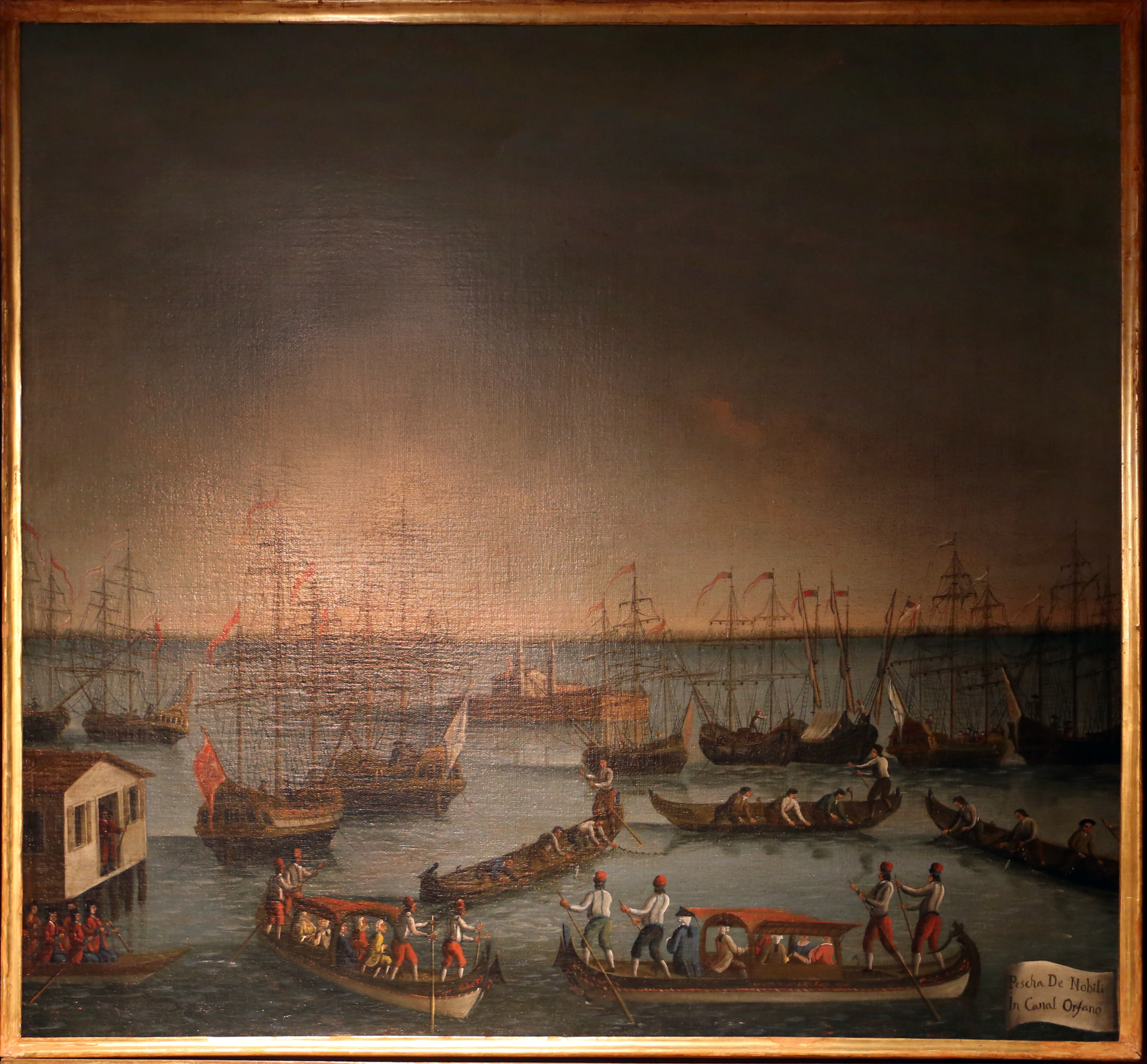 Pinacoteca Querini Stampalia (Venice)